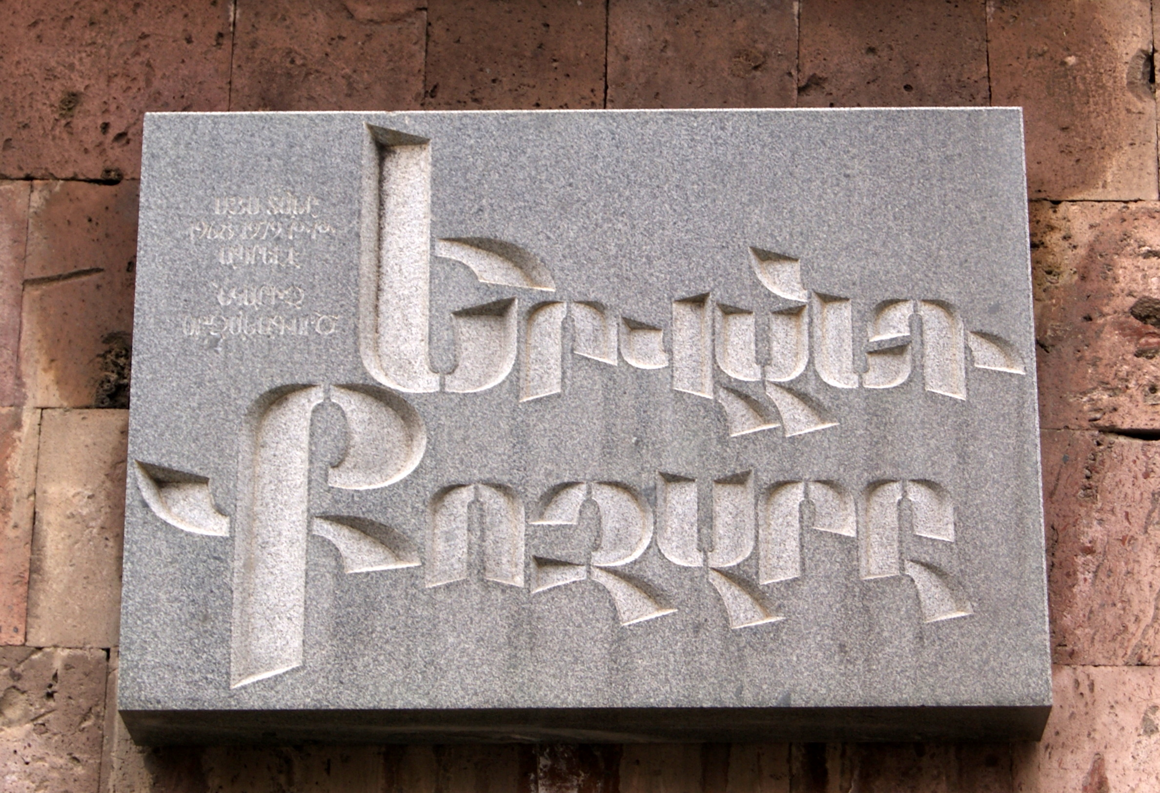 Yervand Kochar's plaque on Demirchyan street, Yerevan